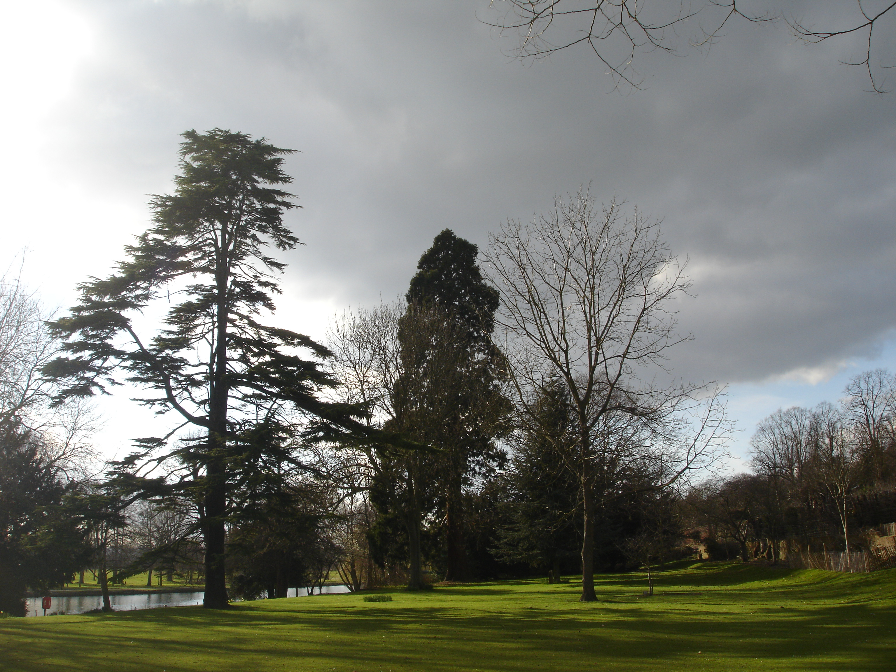 A general view of part of Caversham Court Gardens, Reading, England